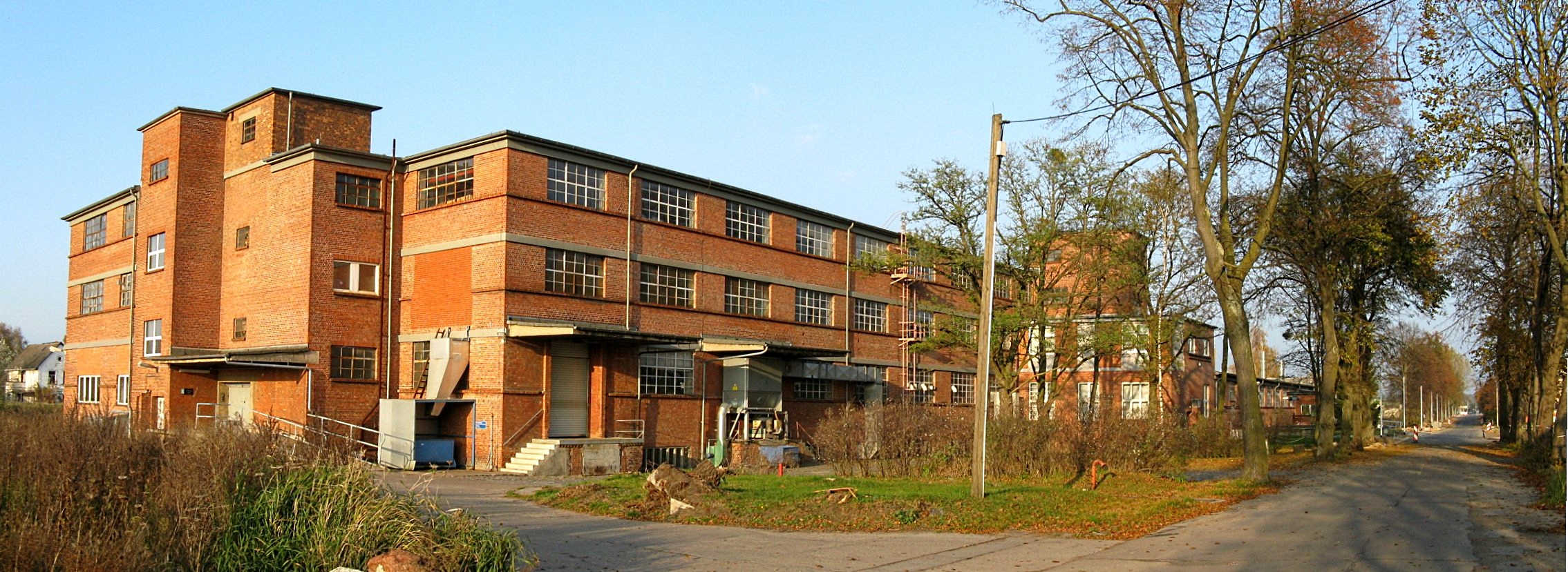 Leather factory in Neustadt-Glewe, Germany